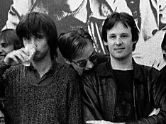 A and A Records and tapes, Toronto, 3/10/80 Photo by Jean-Luc Ourlin